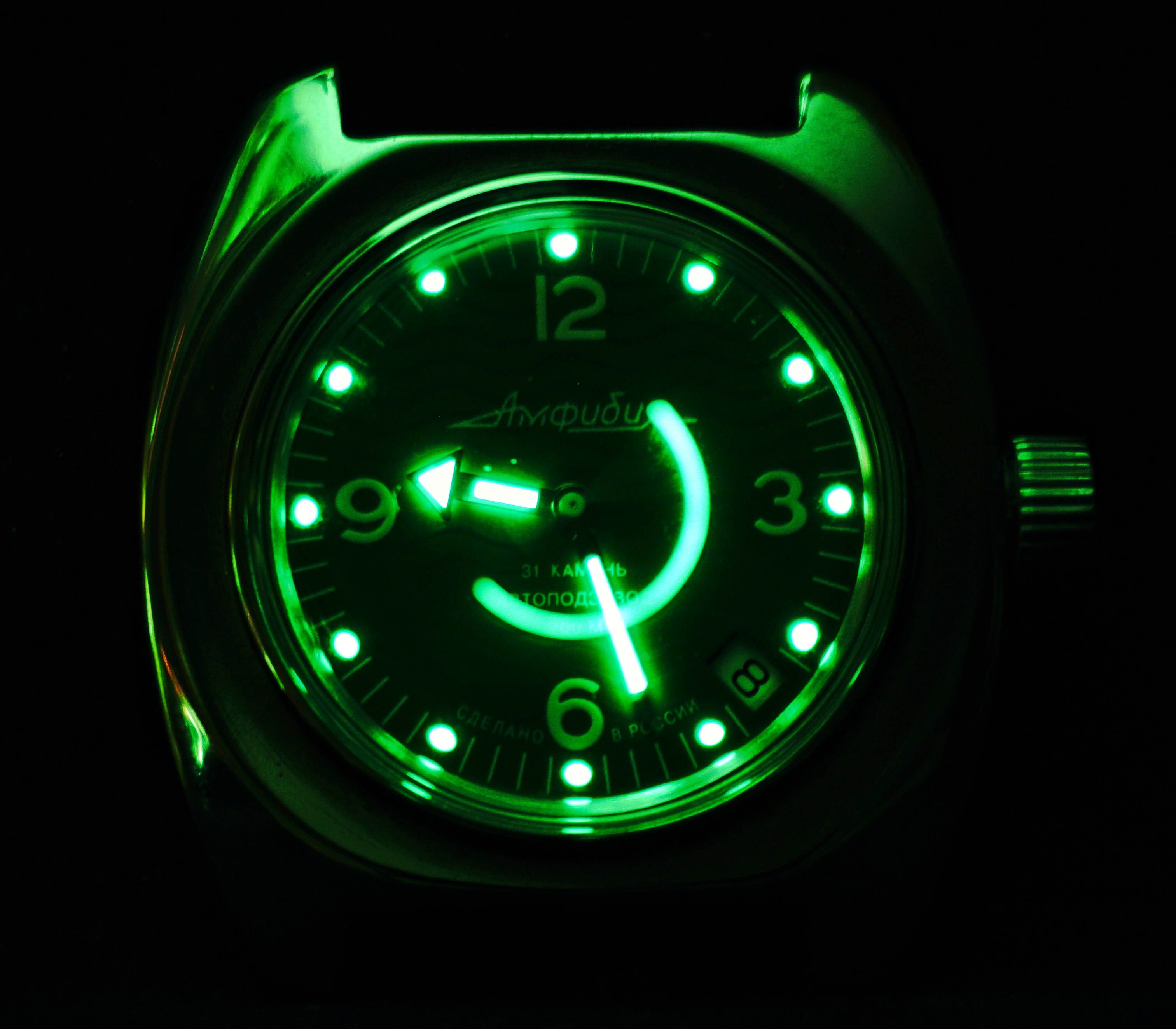 VOSTOK AMPHIBIA